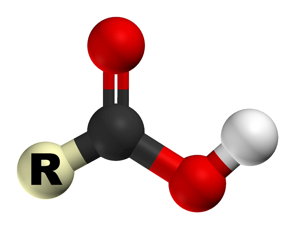 Carboxylic-acid-group-3D